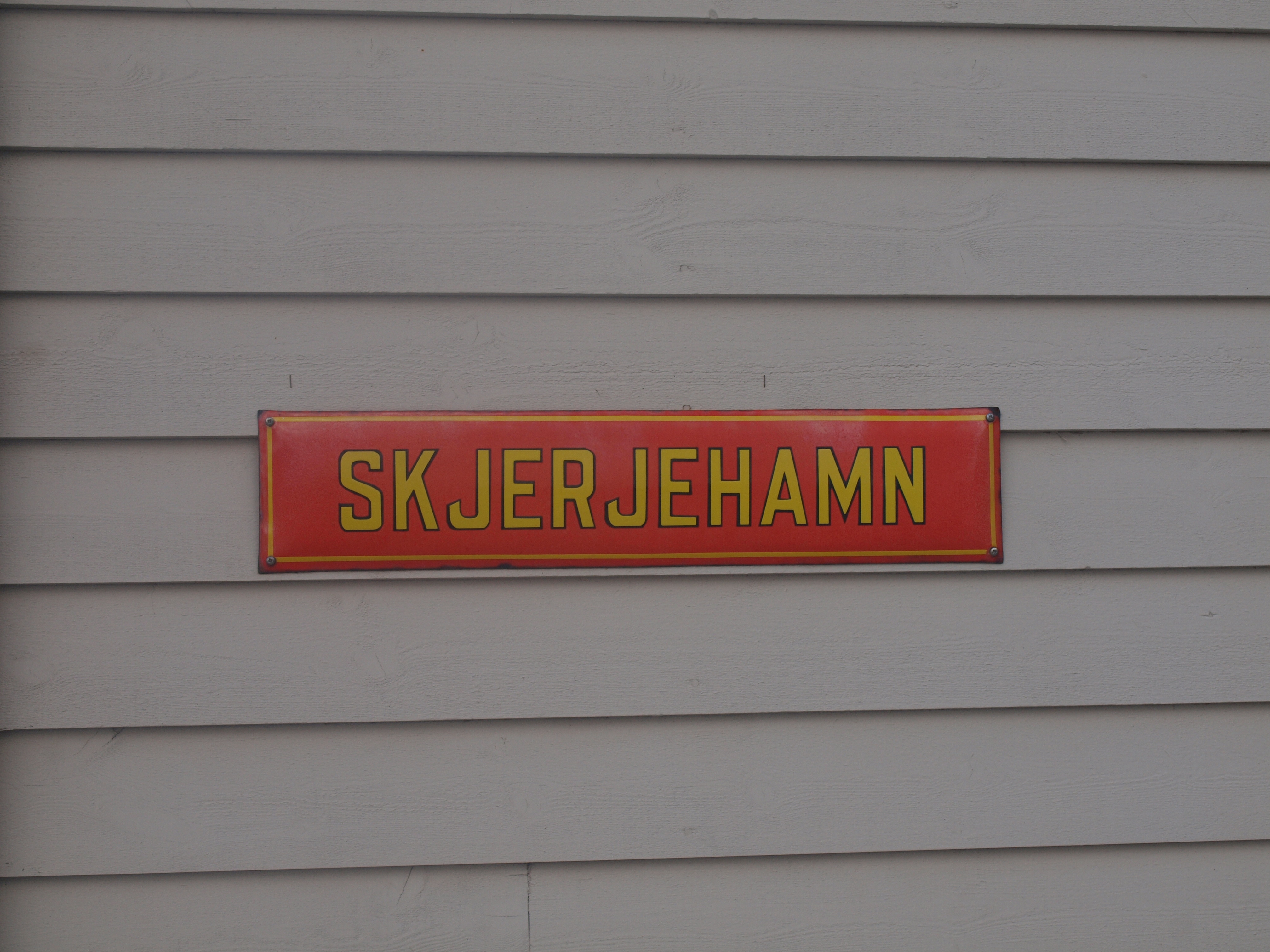 The sign on the supermarket in Skjerjehamn, Norway